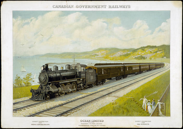 View of the "Ocean Limited" train, running under the Canadian Government Railways. Identified as a 19th Century image by the LAC; unlikely as the CGR was created in 1915 and was renamed Canadian National Railway in 1918. Either way, is public domain due to age.